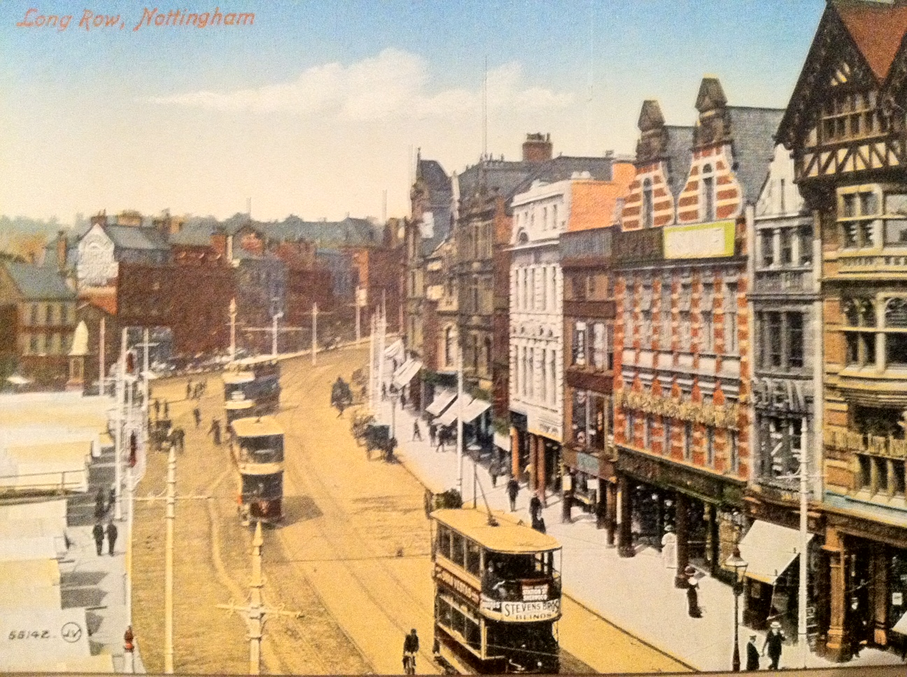 Trams on Long Row in Nottingham circa 1910